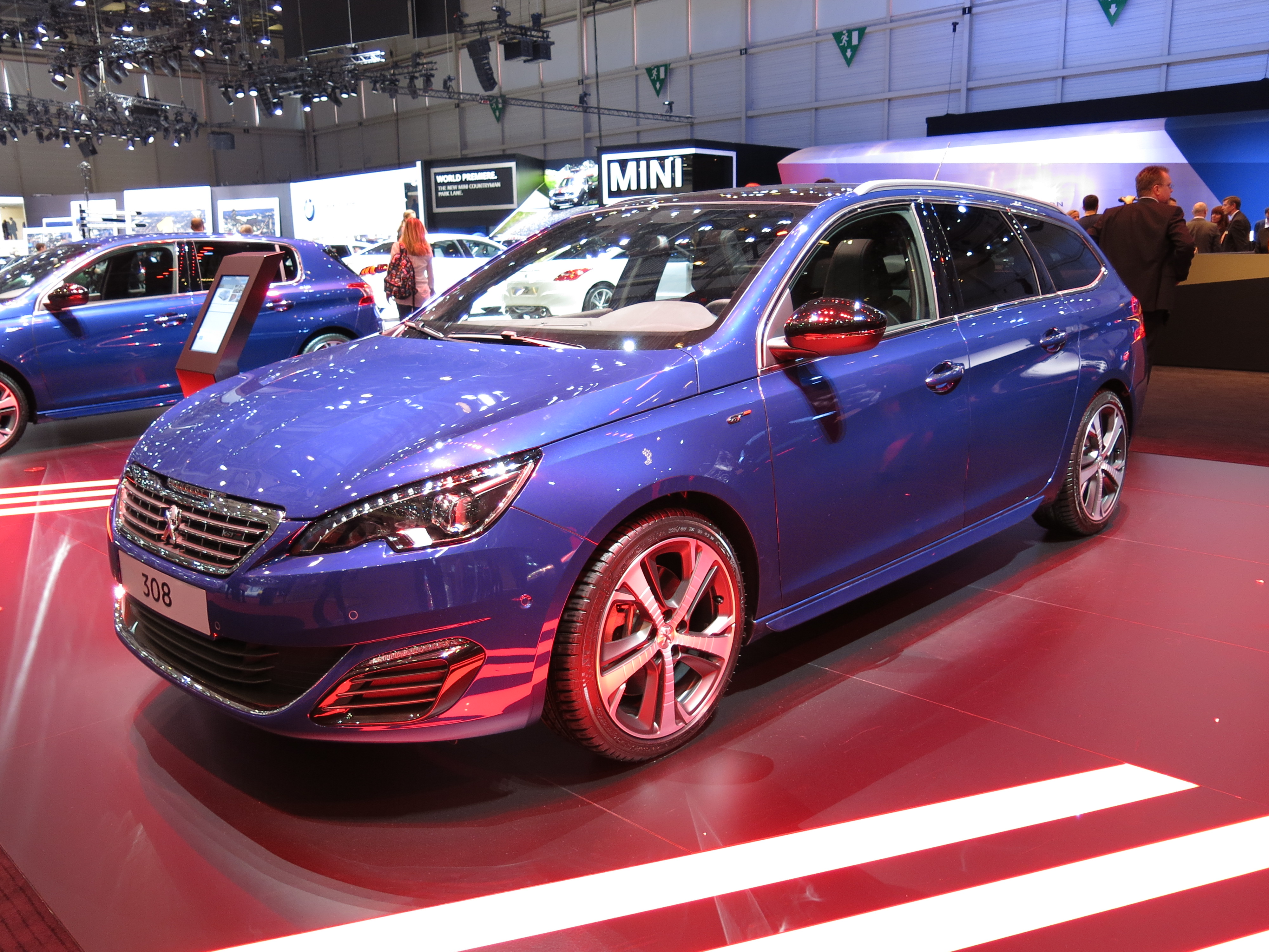 Geneva Motor Show 2015 (photo taken on the first press day)